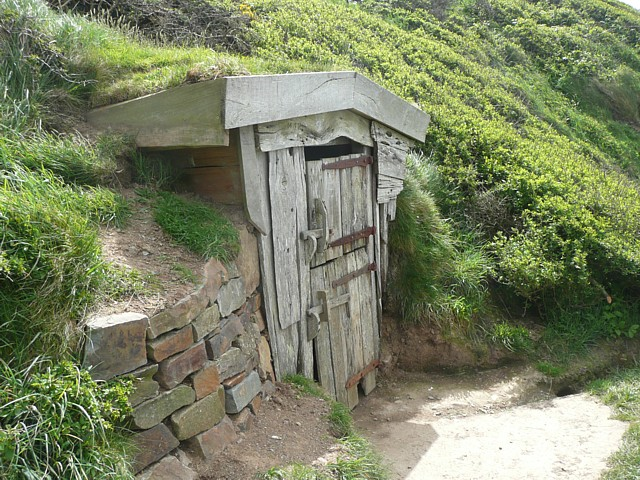 Hawker's Hut, Vicarage Cliff, Morwenstow Vicarage Cliff is 137m high, of sandstone and shales. Hawker's Hut (National Trust), built from driftwood, is on a ledge just below the cliff top, overlooking the sea. The Rev. Robert Stephen Hawker was vicar of Morwenstow from 1834 until his death in 1875. He was one of the best minor poets of the Victorian age, particularly as a ballad writer, e.g. 'The Song of the Western Men'. The 'Well of St. Morwenna' was also built by Hawker.